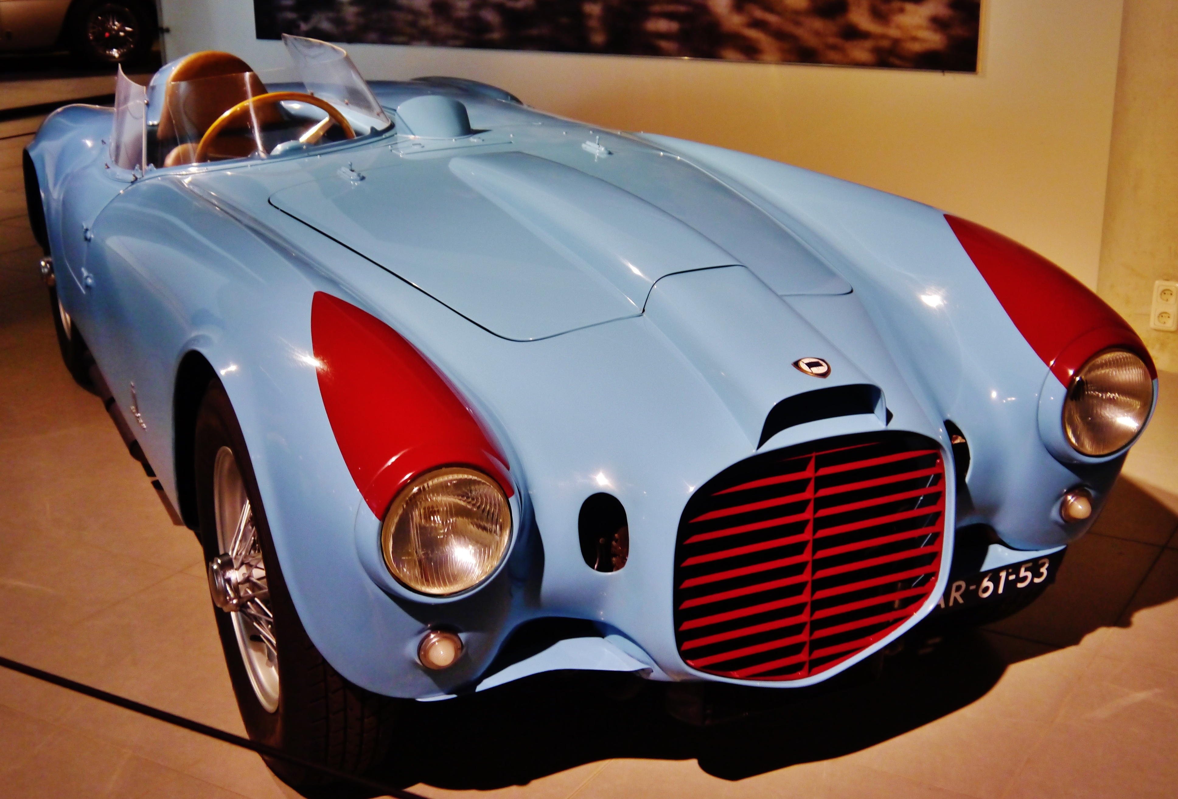 National Automobile Museum/Louwman Museum, The Hague, Province of South Holland, Netherlands